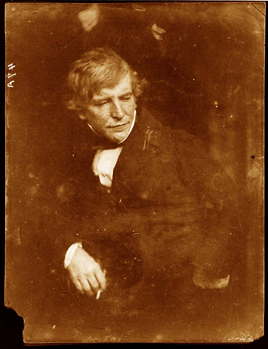 Painter William Etty